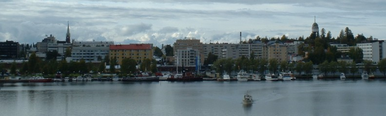 View to downtown Mikkeli, Finland, from the highway bridge over Savilahti (a bay of Lake Saimaa) September 24, 2004.